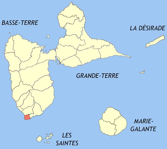 Location of Vieux-Fort within Guadeloupe